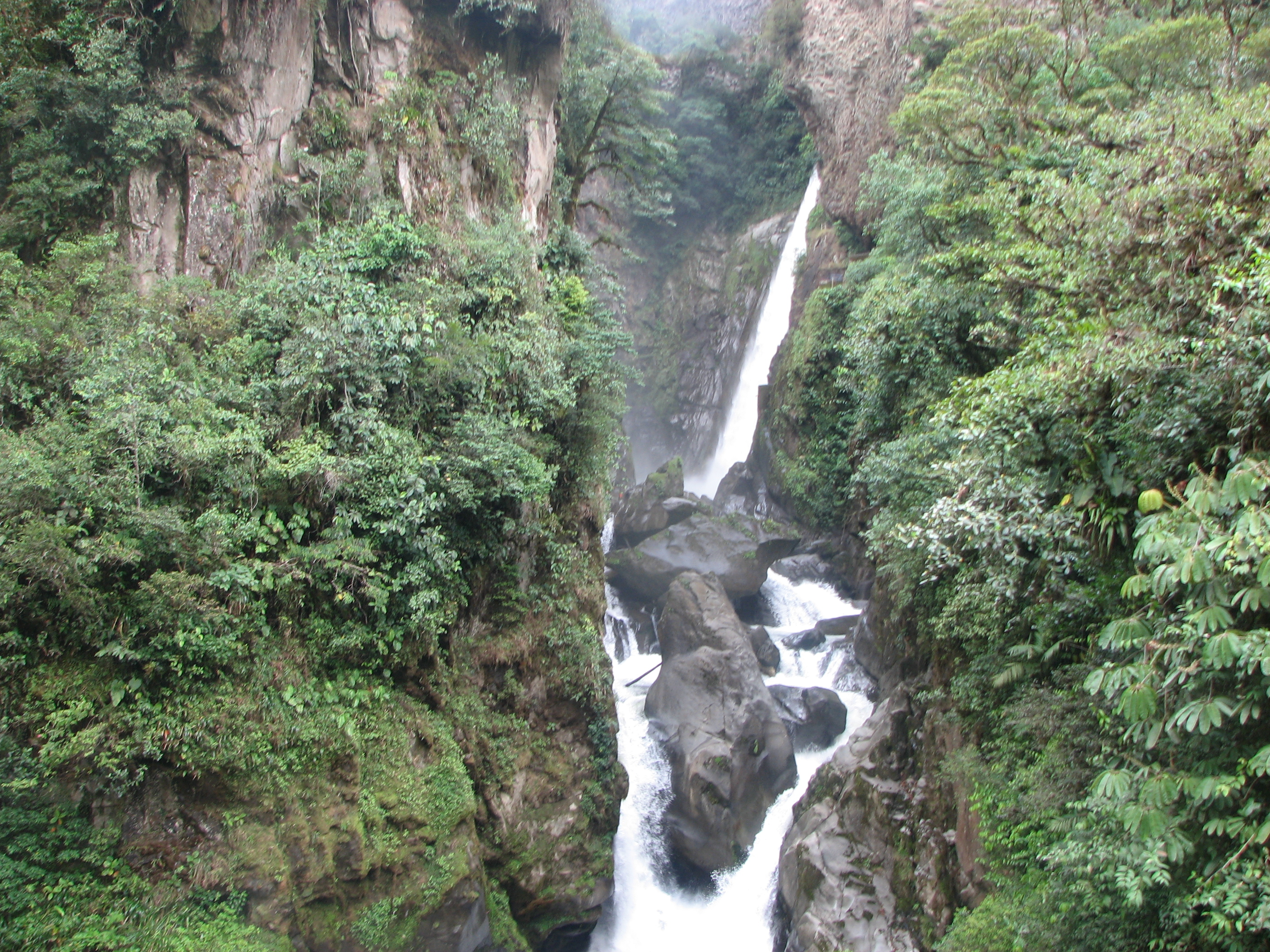 Pailón del Diablo waterfall, Baños, Ecuador